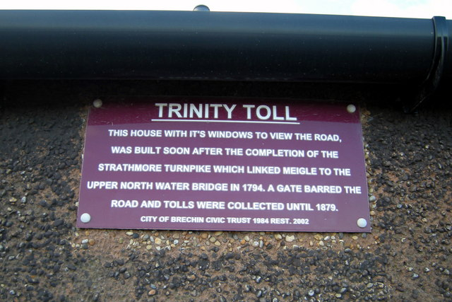 Plaque depicting Trinity Toll, Trinity Village near Brechin